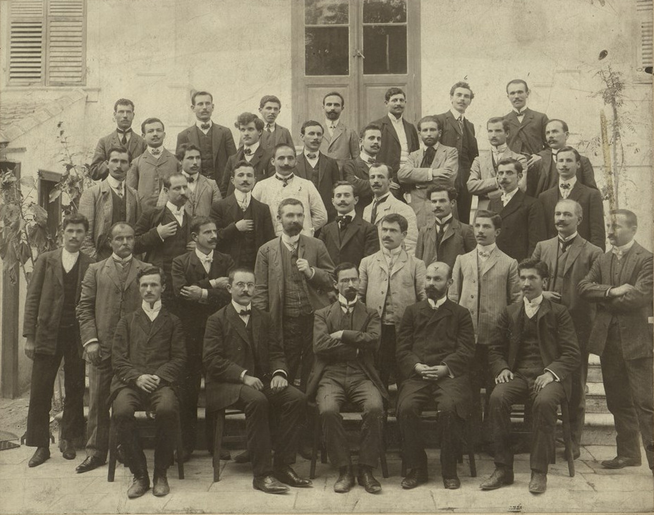 IMARO